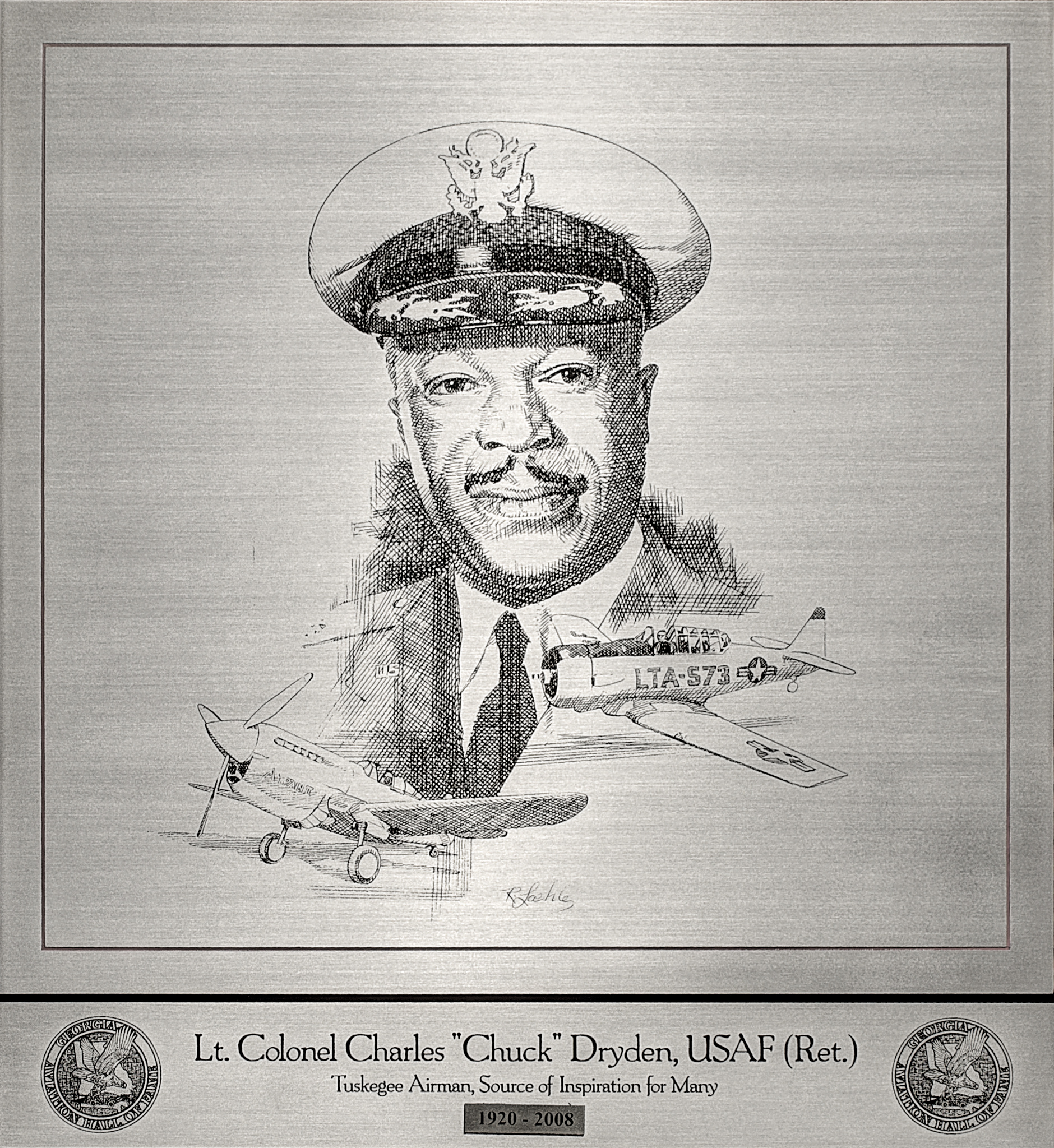 Lt. Colonel Charles Dryden